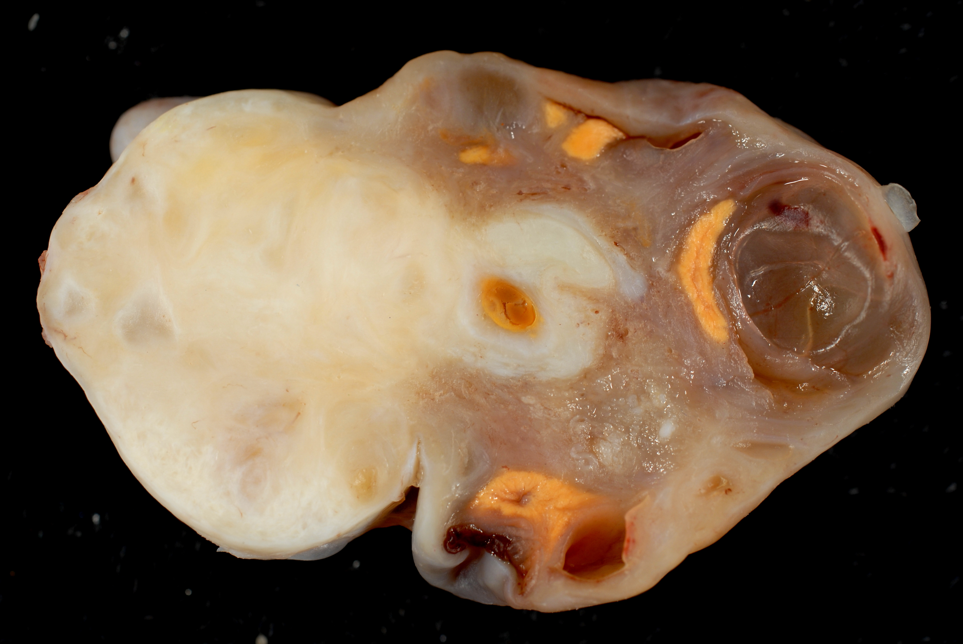 Fibroma of the Ovary.